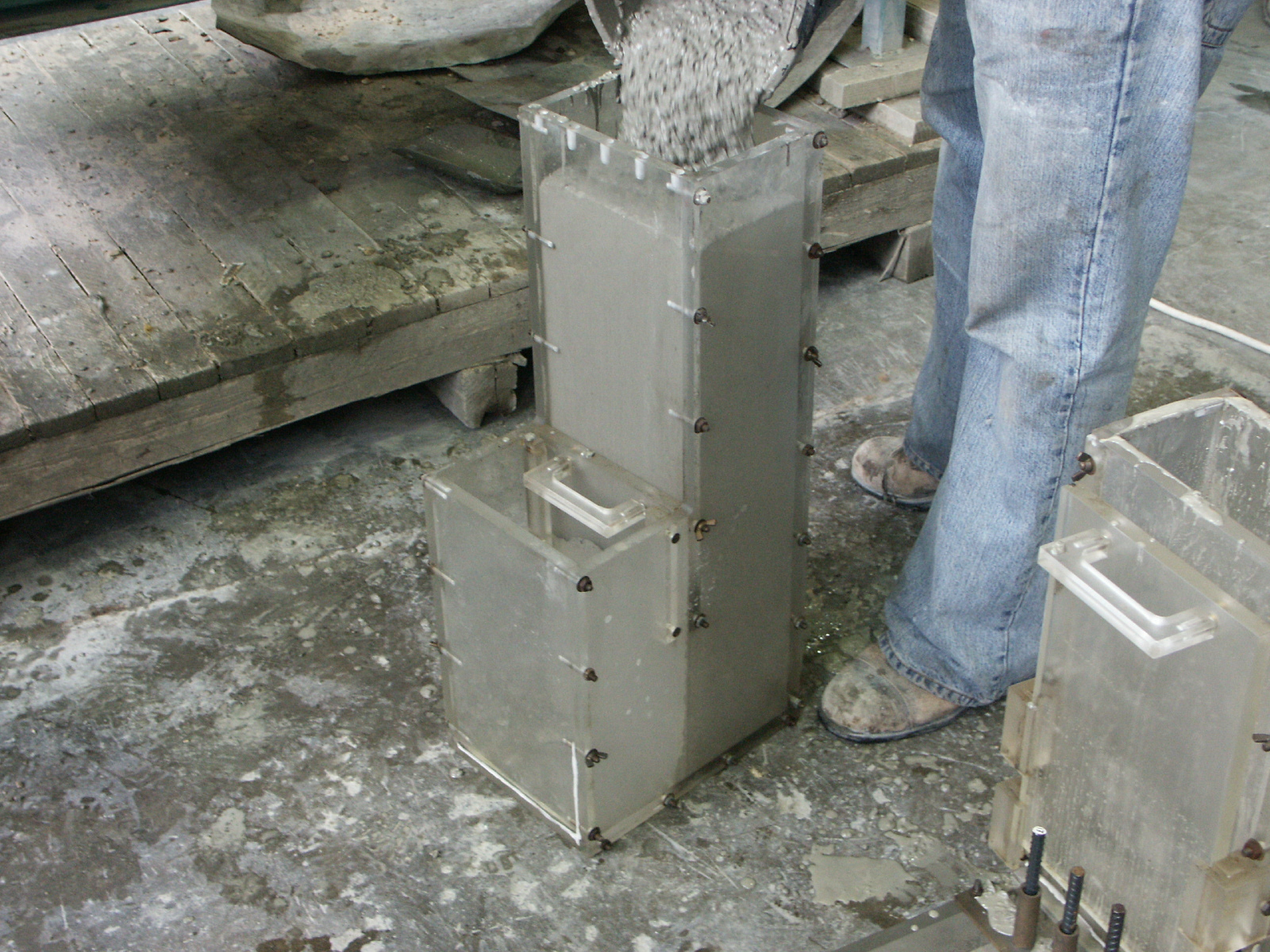 workability test for SCC concrete. the start of a U test